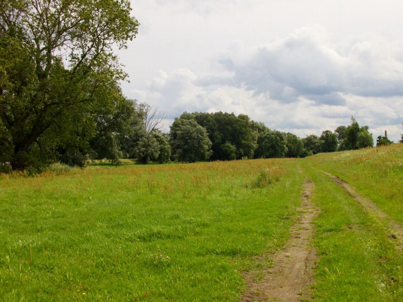 Before Ratzdorfer Neiße River dike